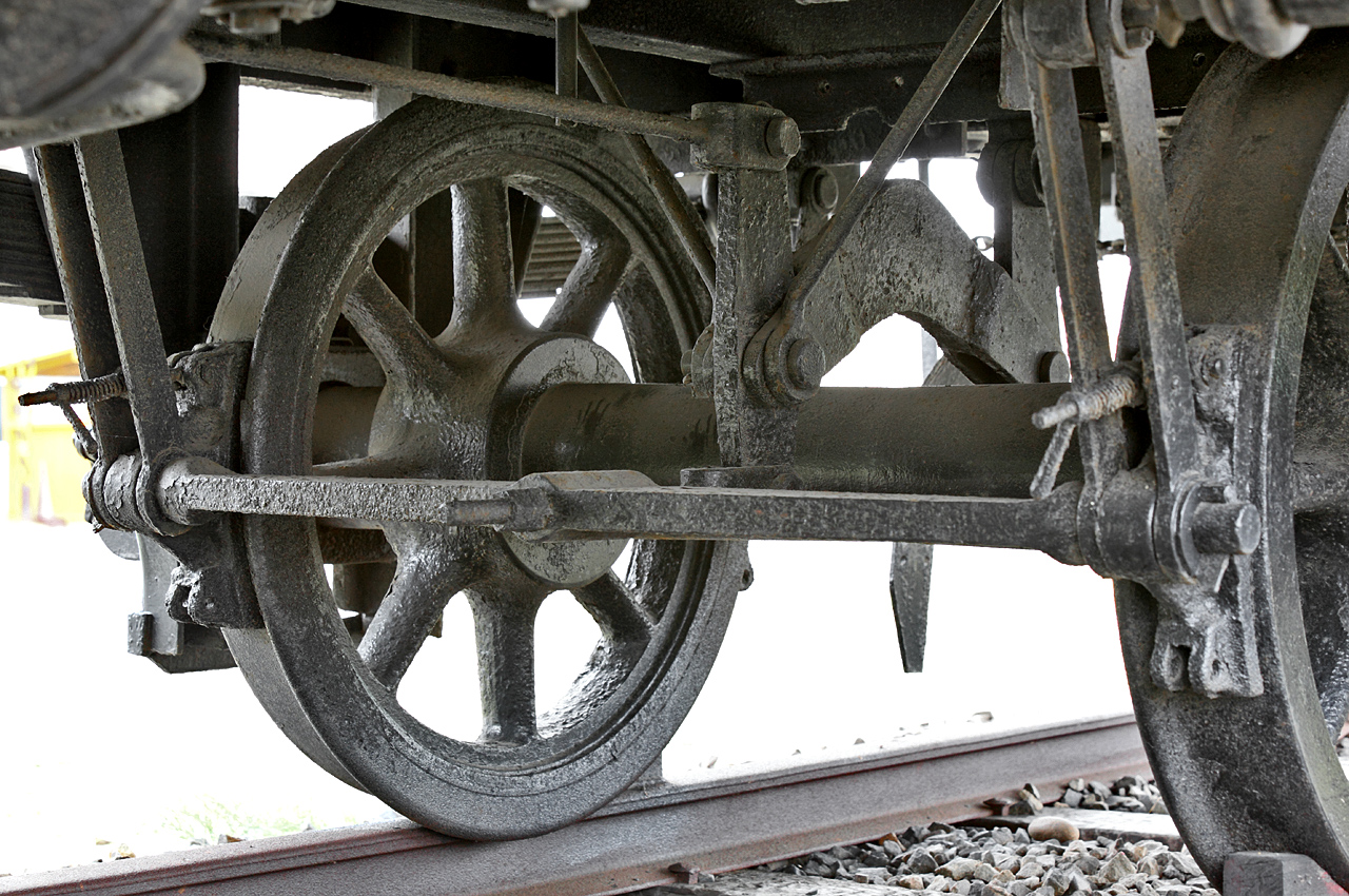 An axle and the outskirts of the JNR Kihani 5000 Gasoline Railcar (in Naebo Workshop).